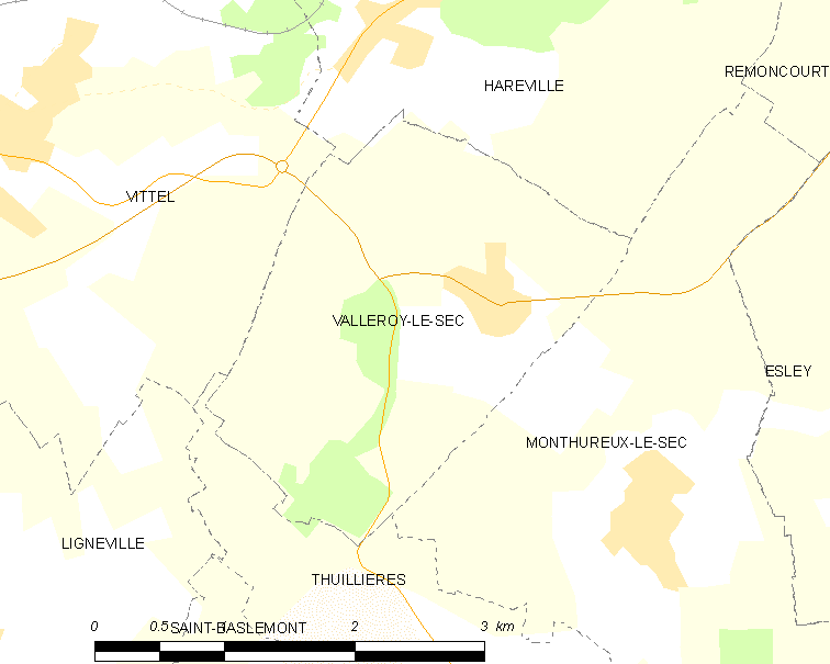 Map of French municipality Valleroy-le-Sec